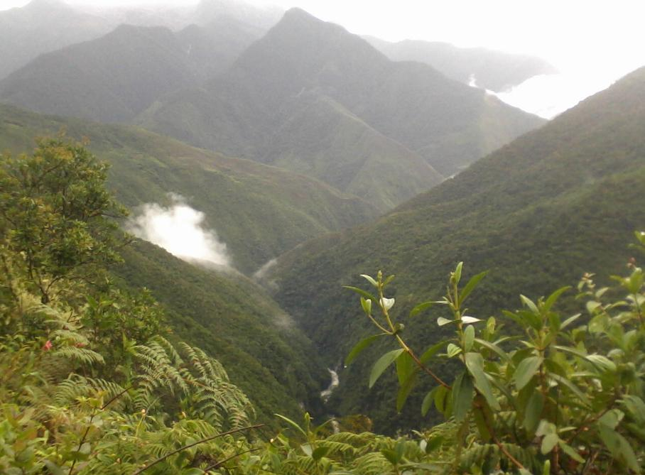 Choro-Trail in the middle of the way, view